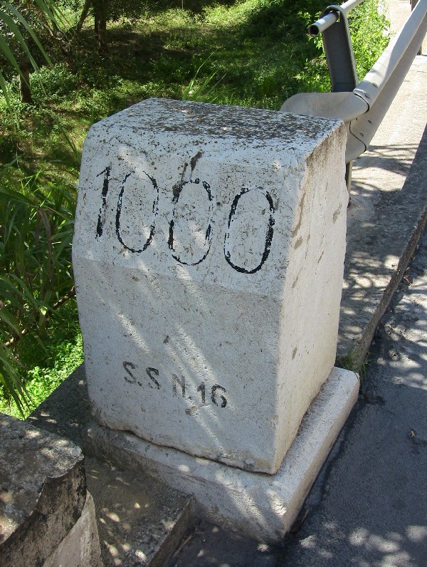 Milestone km 1000 on the SS 16 road (closer look)